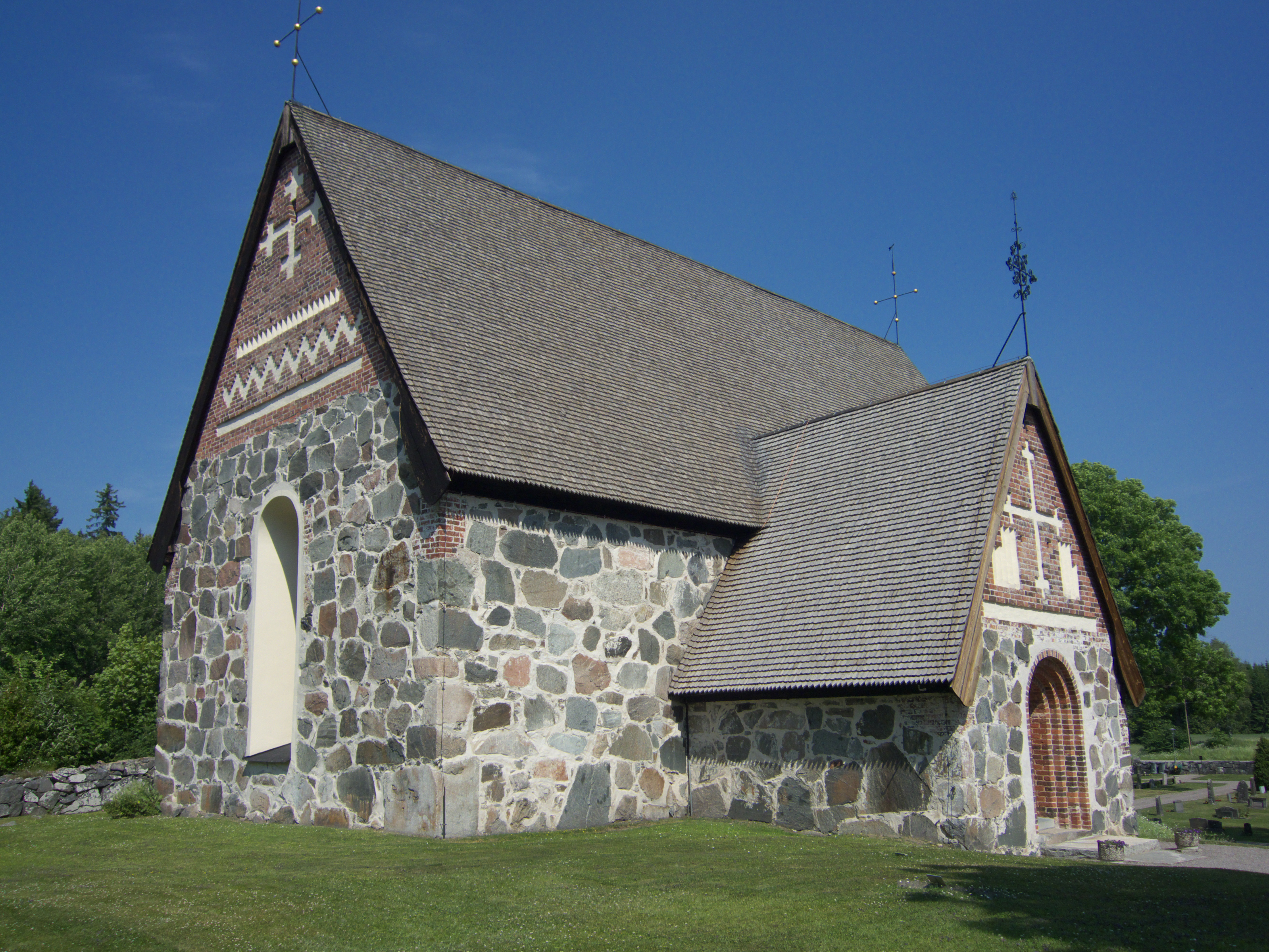 Dannemora church